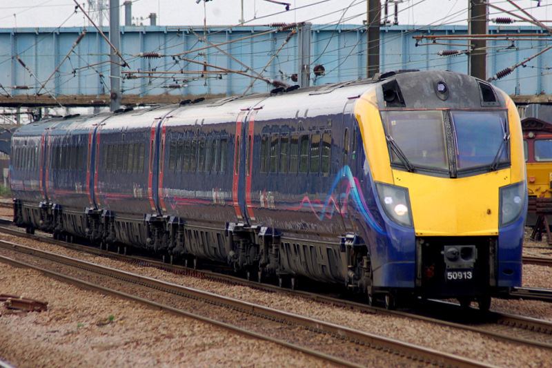 Coming Soon...